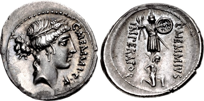 AR Denarius, Rome, 56 BC Obverse: Head of Ceres right, wearing wreath of grain ears and pendant earring; C MEMMI C F before. Reverse: Trophy of arms set on captive kneeling to right, his hands tied behind his back; C MEMMIVS downwards on right; IMPERATOR downwards on left. 19mm, 3.84g Crawford 427/1